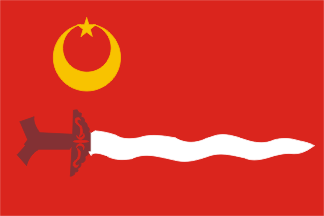 Flag of the MNLF and Bangsa Moro Army in Cotabato